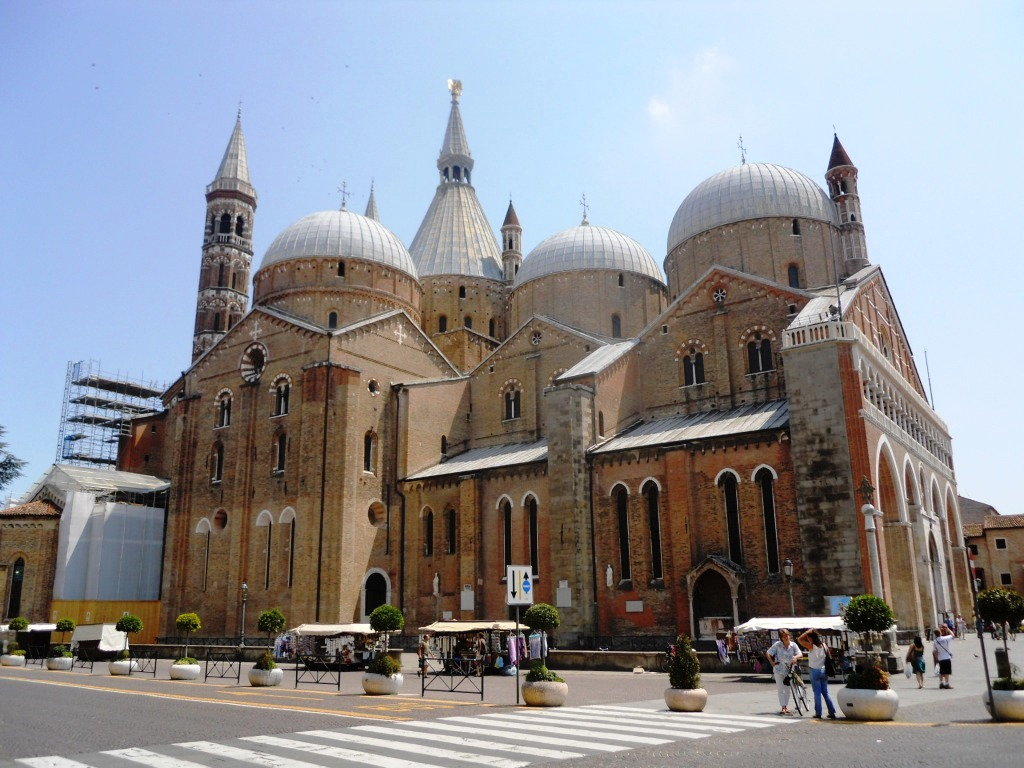 St Anthony church from N